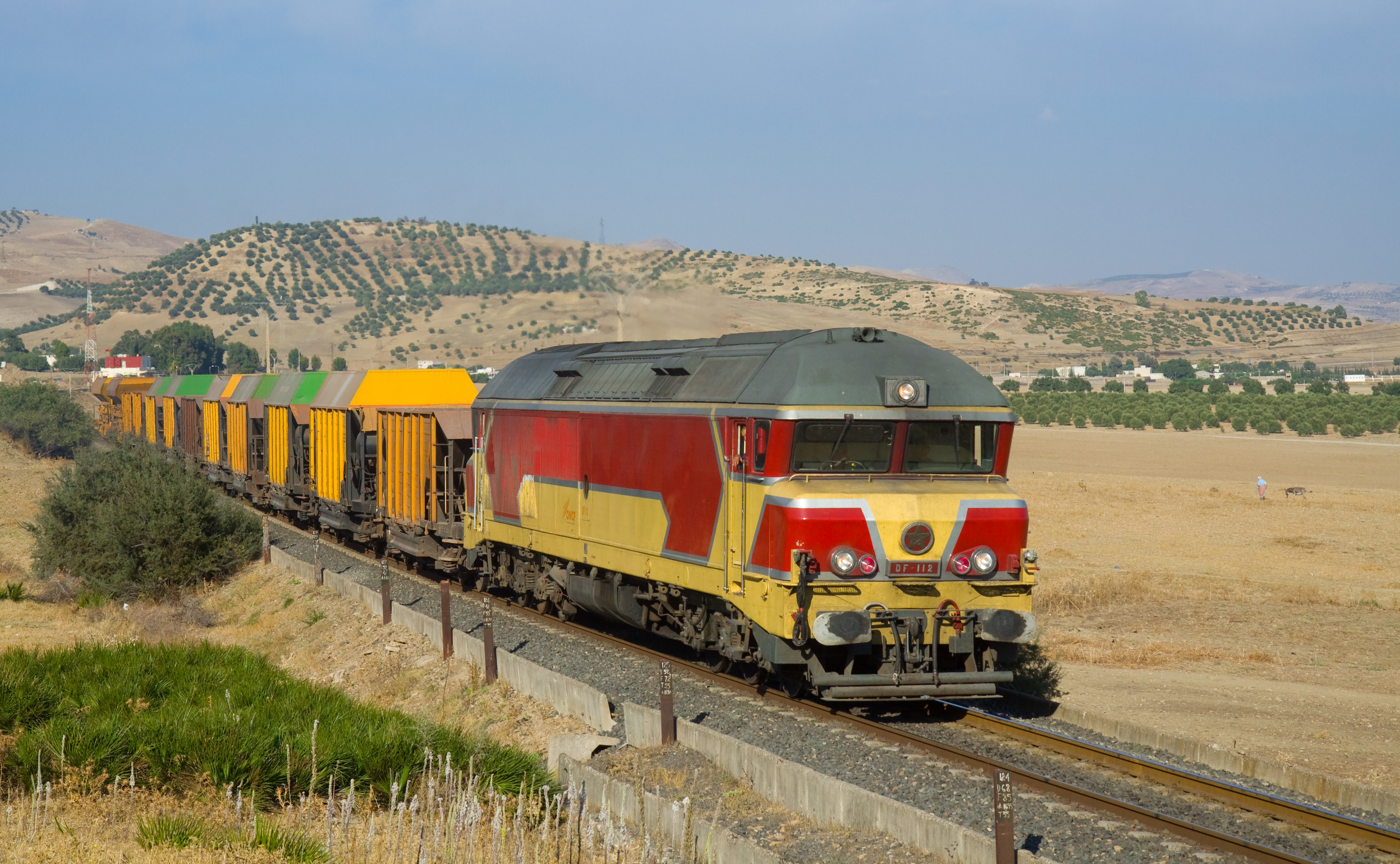 The ONCF DF 112 (similar to SNCF 72000) has just left Bab Marzouka (Morocco) with a ballast train.